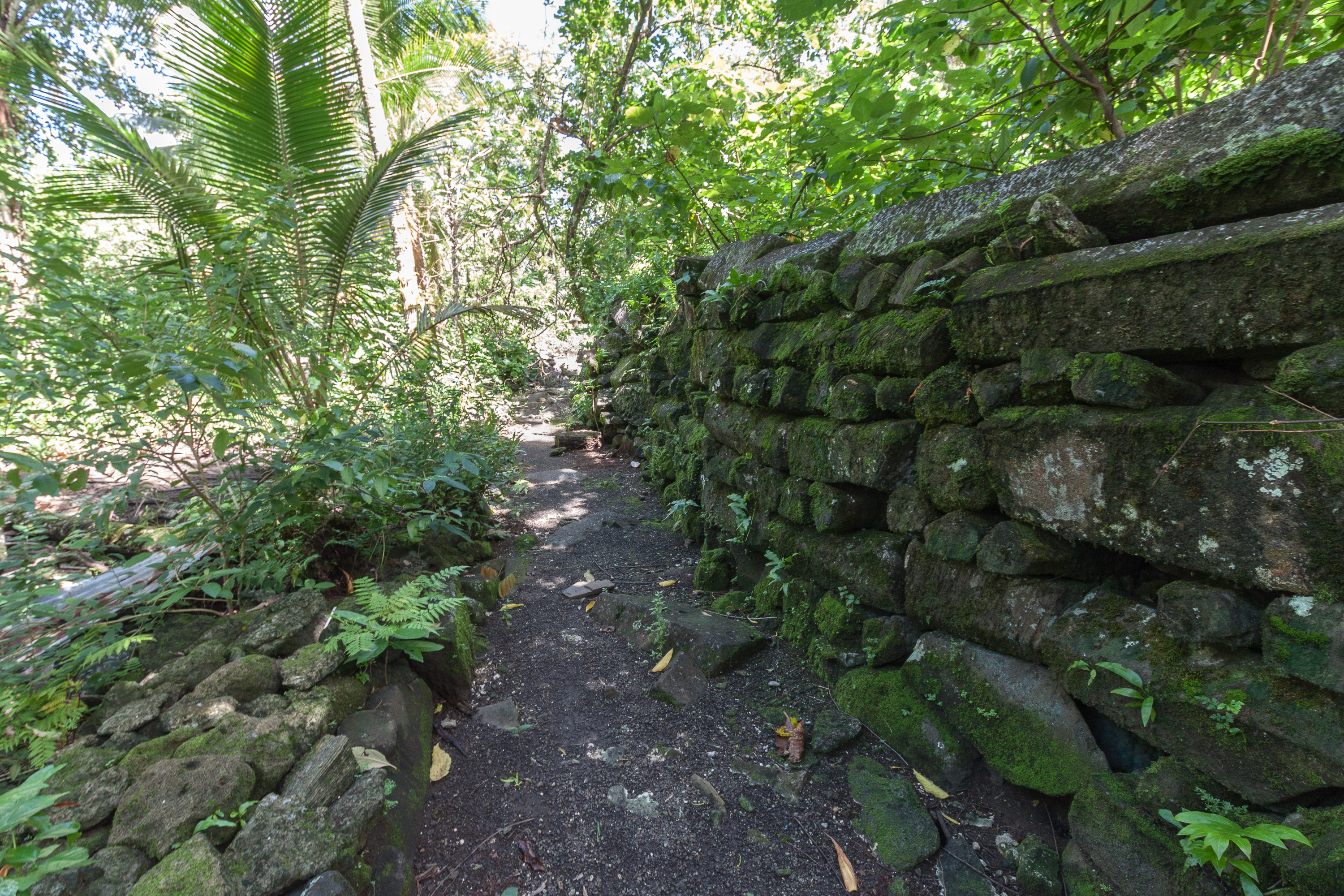 Typical fragment of a wall, Lelu Ruins, Kosrae, Micronesia